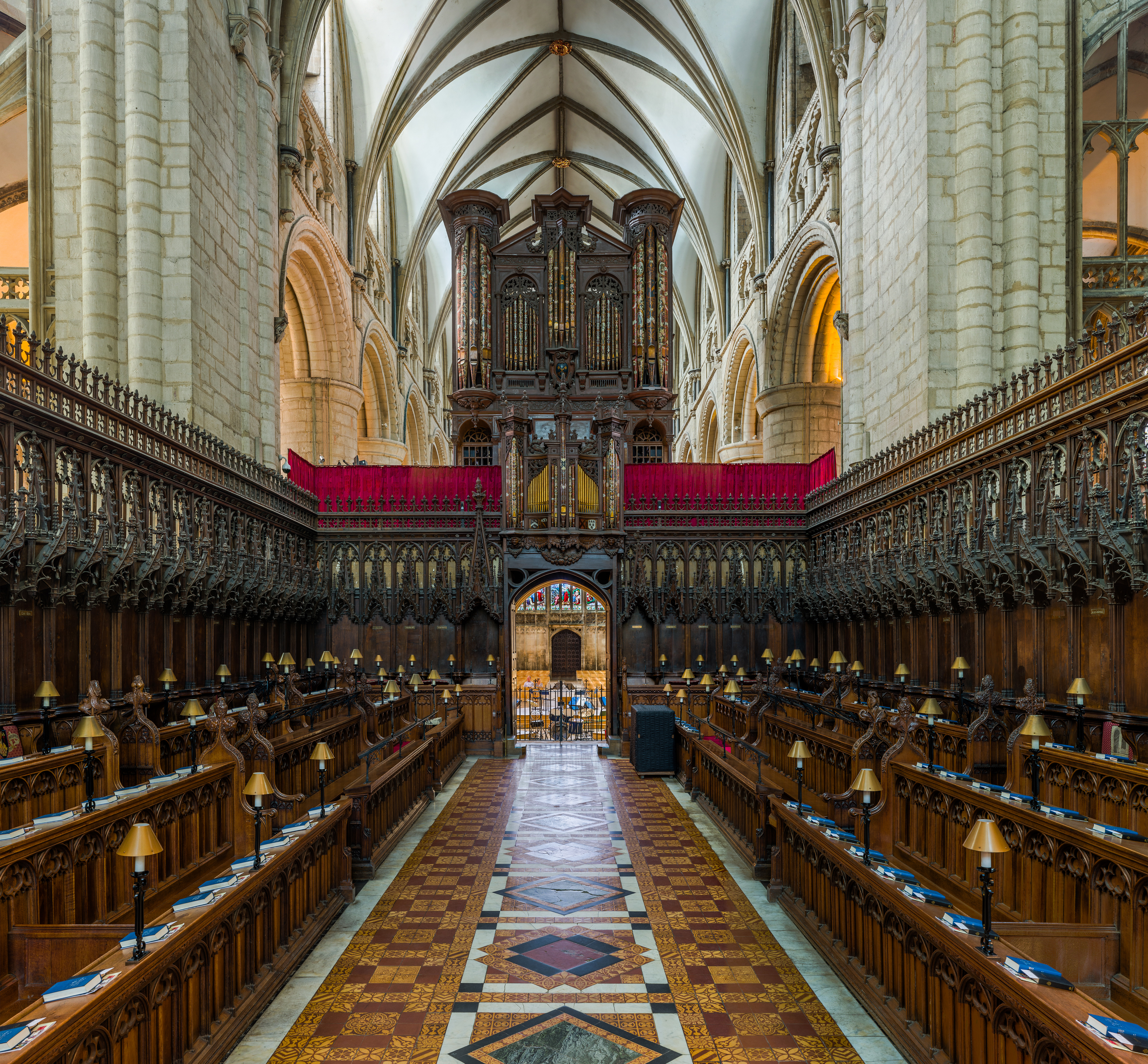 The choir of Gloucester Cathedral looking west in Gloucestershire, England.